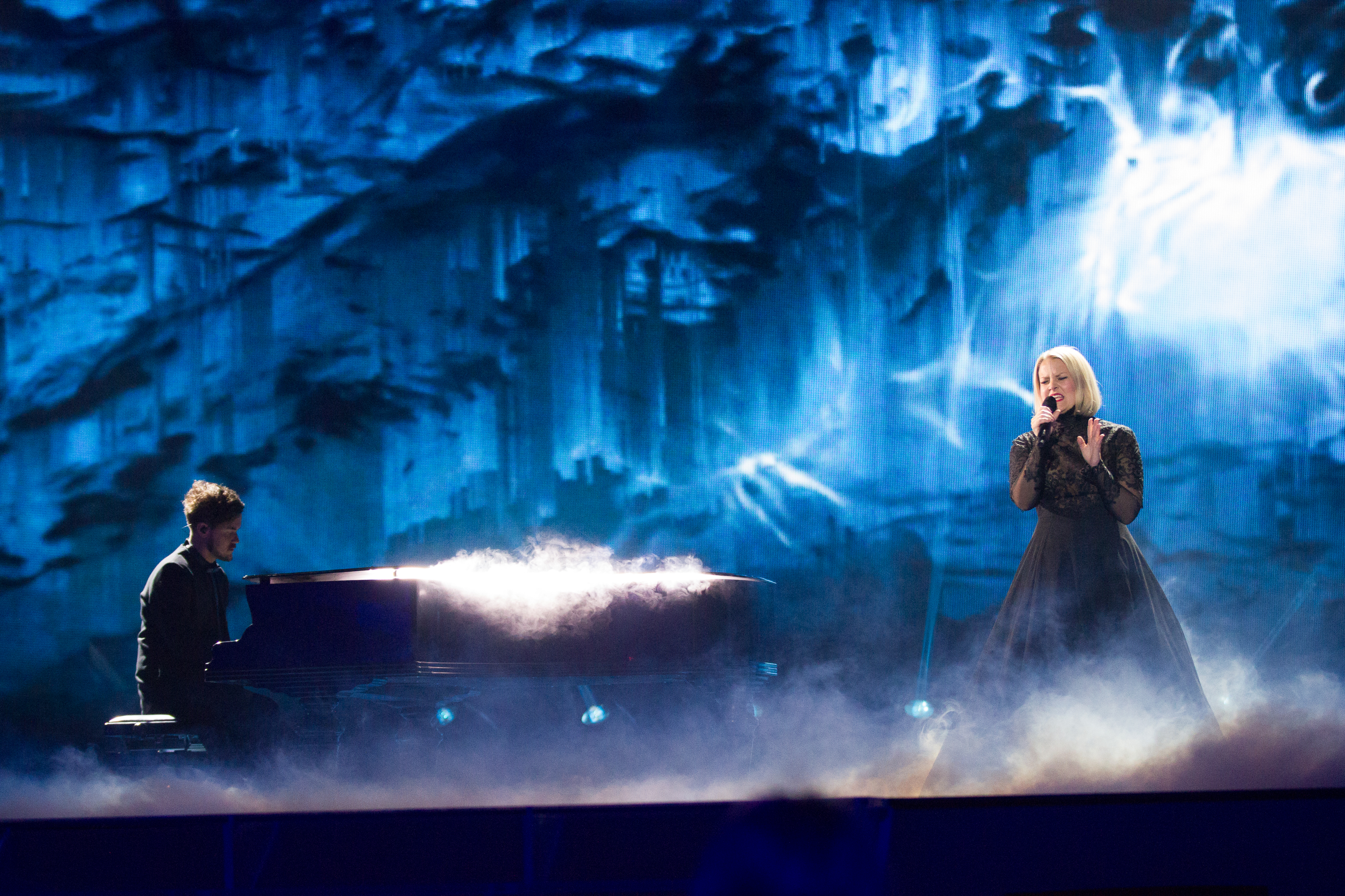 Norma John representing Finland with the song "Blackbird" during a rehearsal before the first semi final of the Eurovision Song Contest 2017 in Kiev.